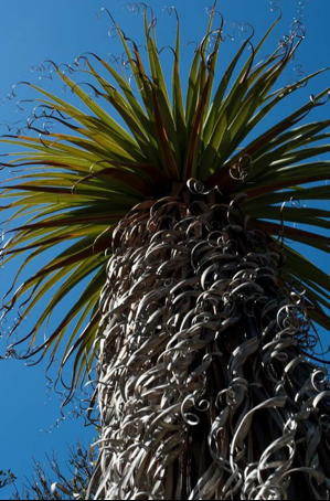 Persistant leaves